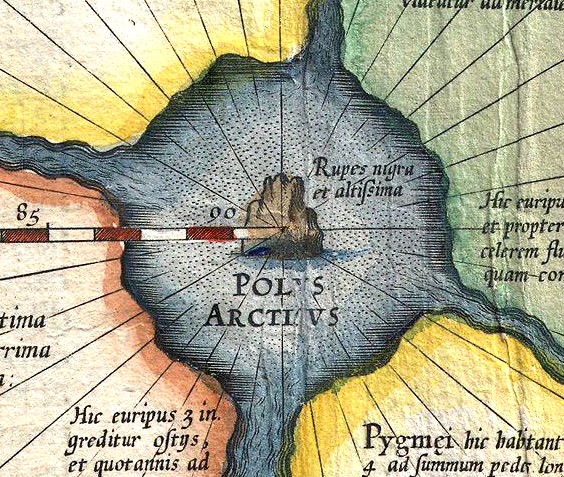 Mercator: Septentrionalium Terrarum descriptio. A map of the North Pole. Detail showing “Rupes nigra et altissima”, the “black and very high rock”.